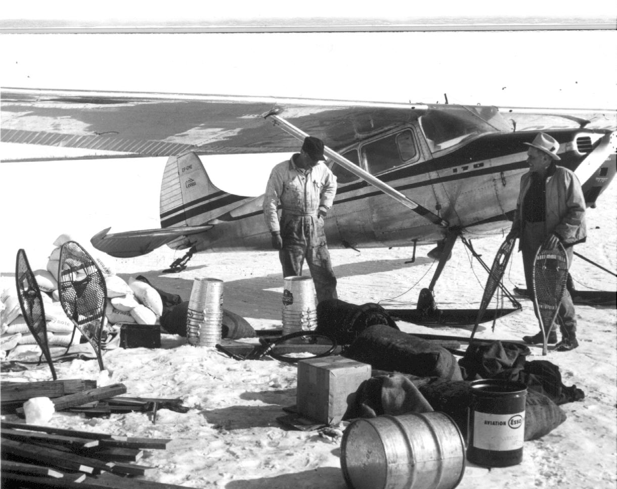 Lamb Air Cessna 170 CF-GME. Tom Lamb and Lawrence Ogrodnick sorting out a load of trapping supplies.